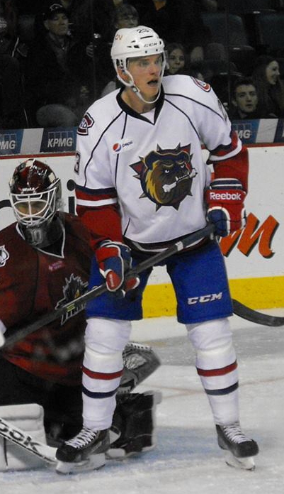 Taken 11/30/2013 @ Copps Coliseum, Hamilton, ON